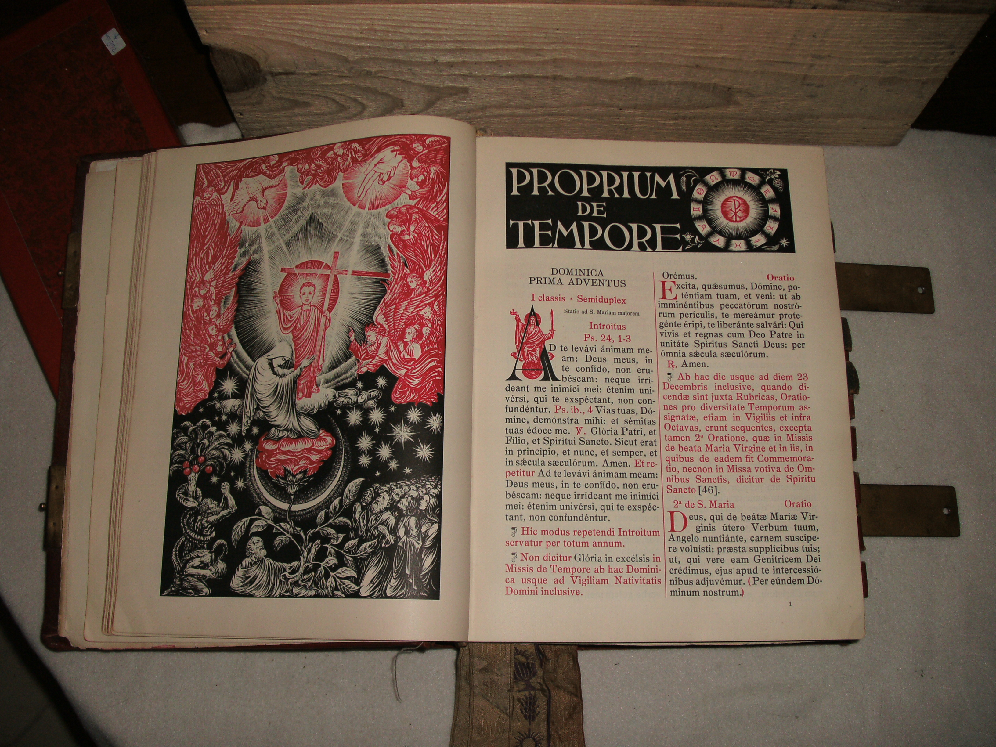 Colored Pages